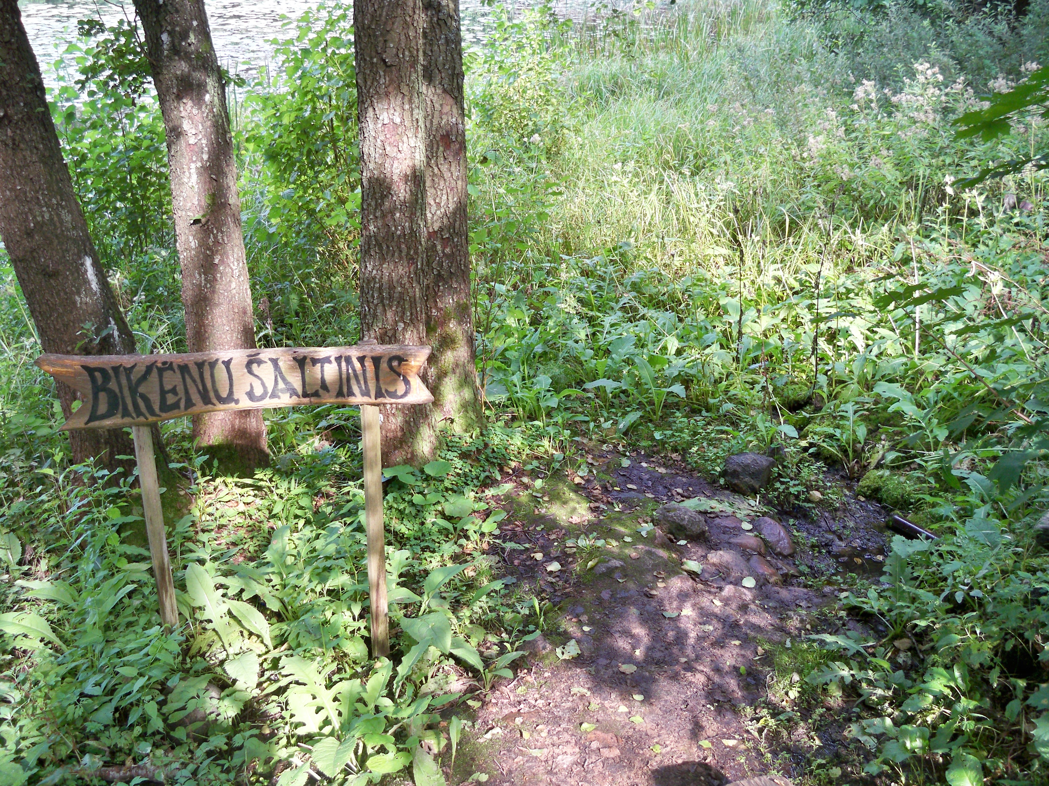 Bikėnai spring.